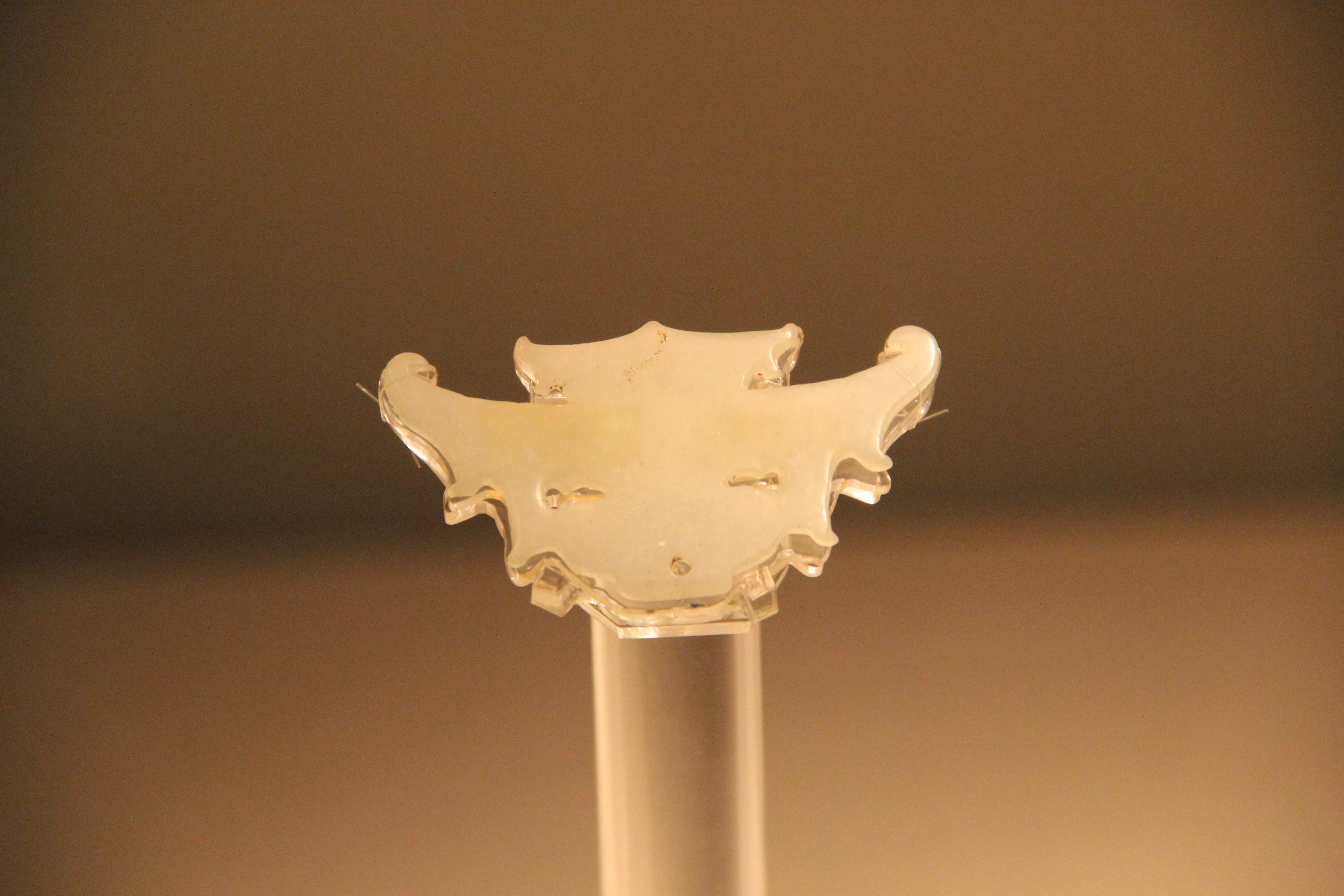 Shanxi Provincial Museum, Taiyuan. Complete indexed photo collection at .